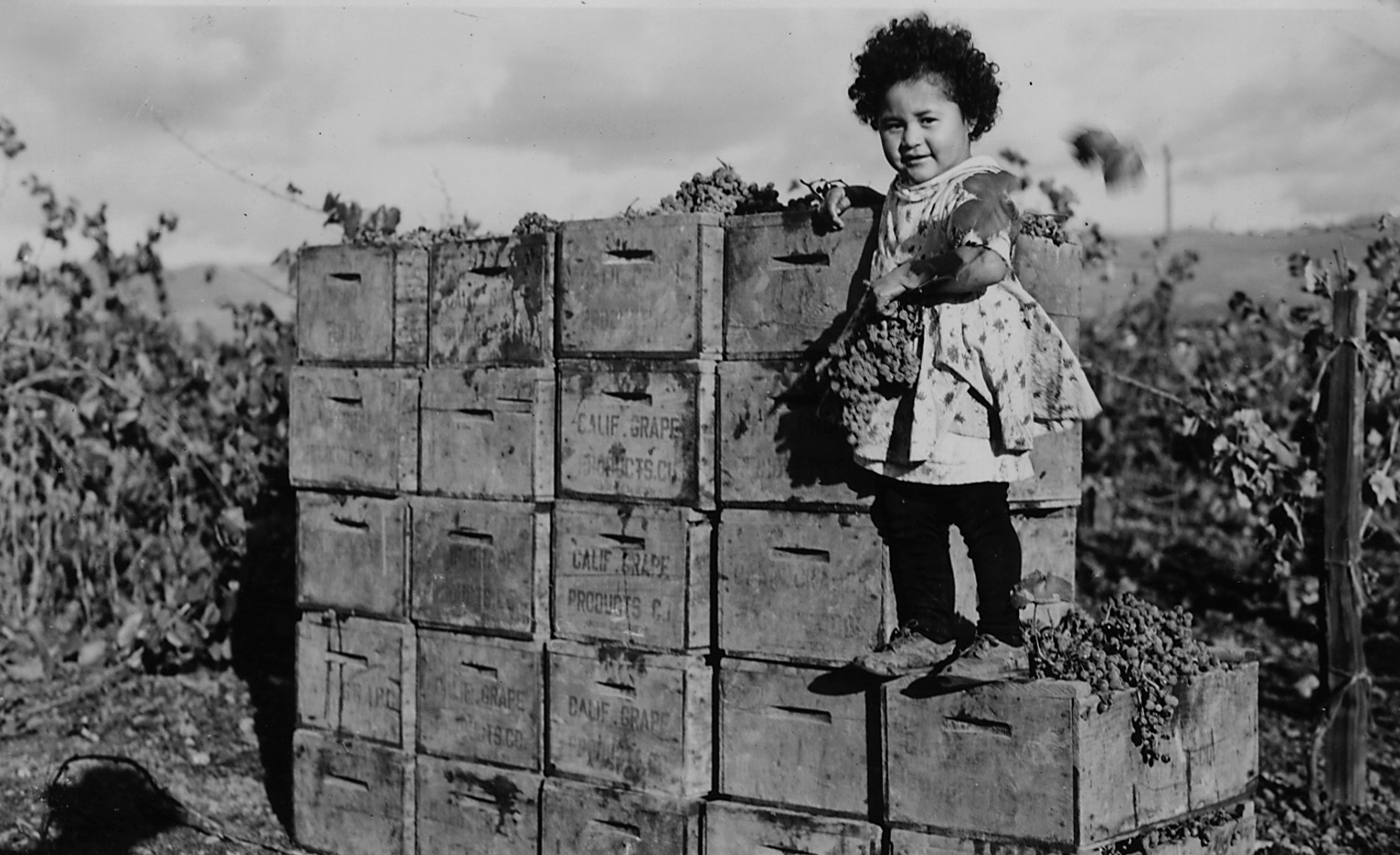 Pat, a young Pomo girl from Pinoleville Rancheria during the grape harvest.